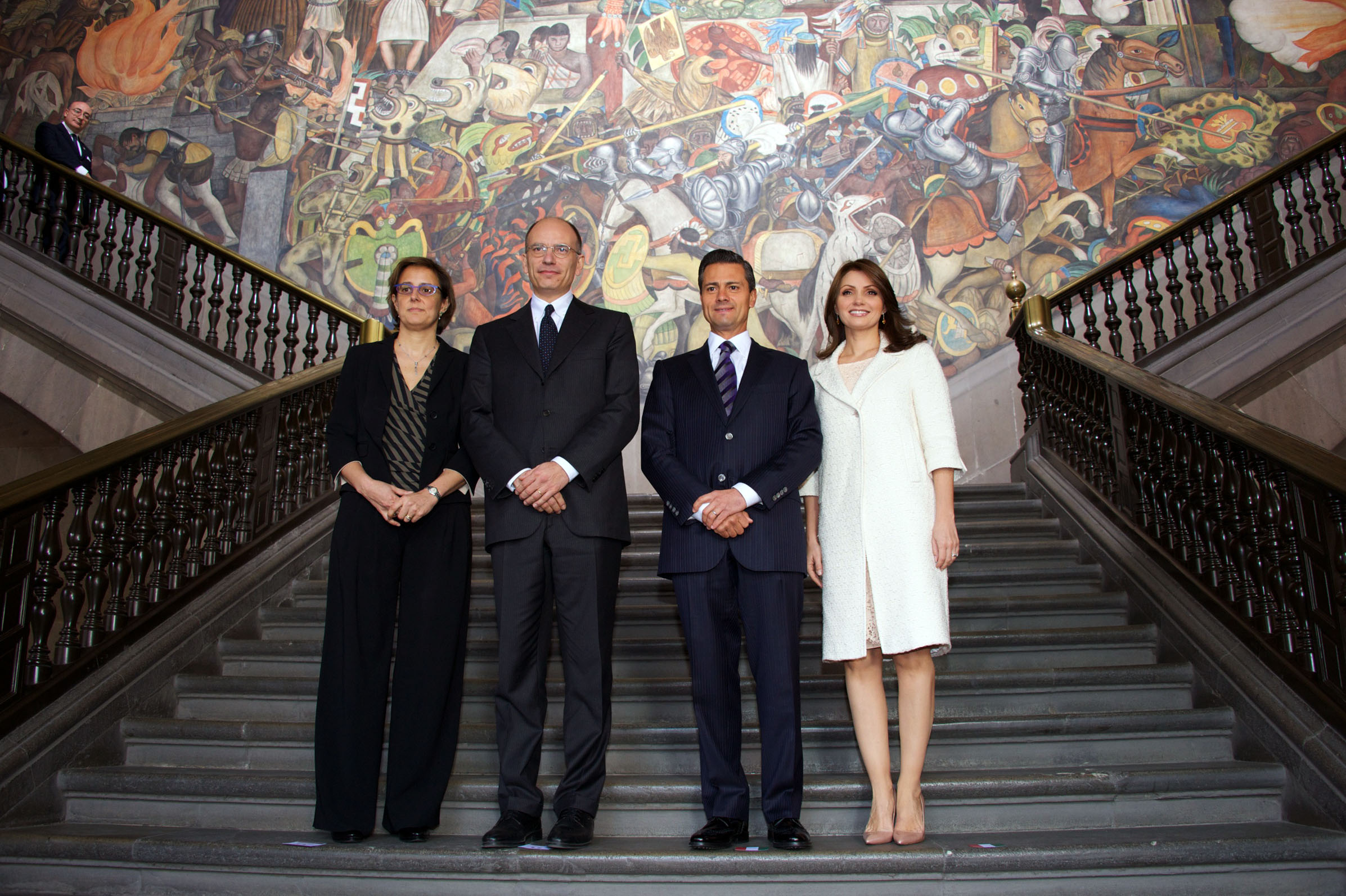 Enrico Letta and Enrique Pena Nieto with their First Ladies